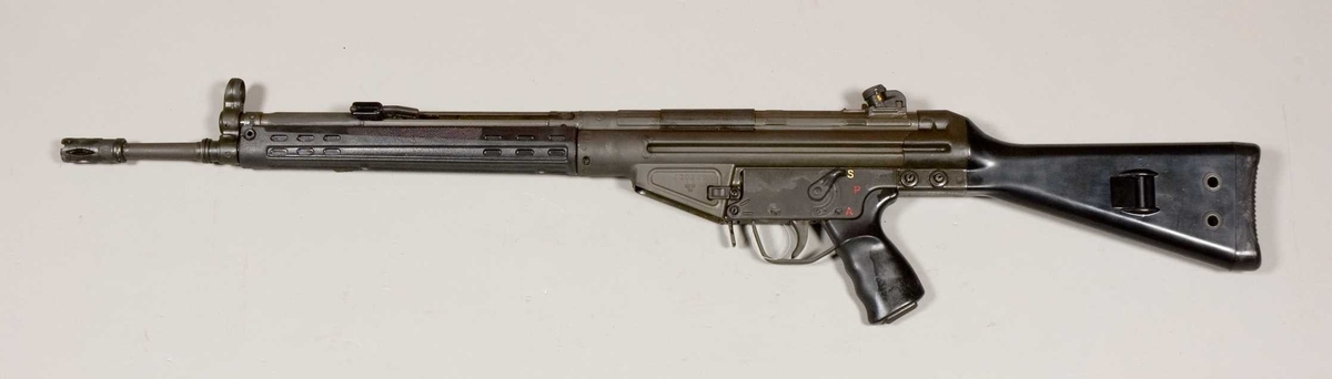 Automatkarbin 4 or just Ak 4, Swedish-made version of the G3A3.